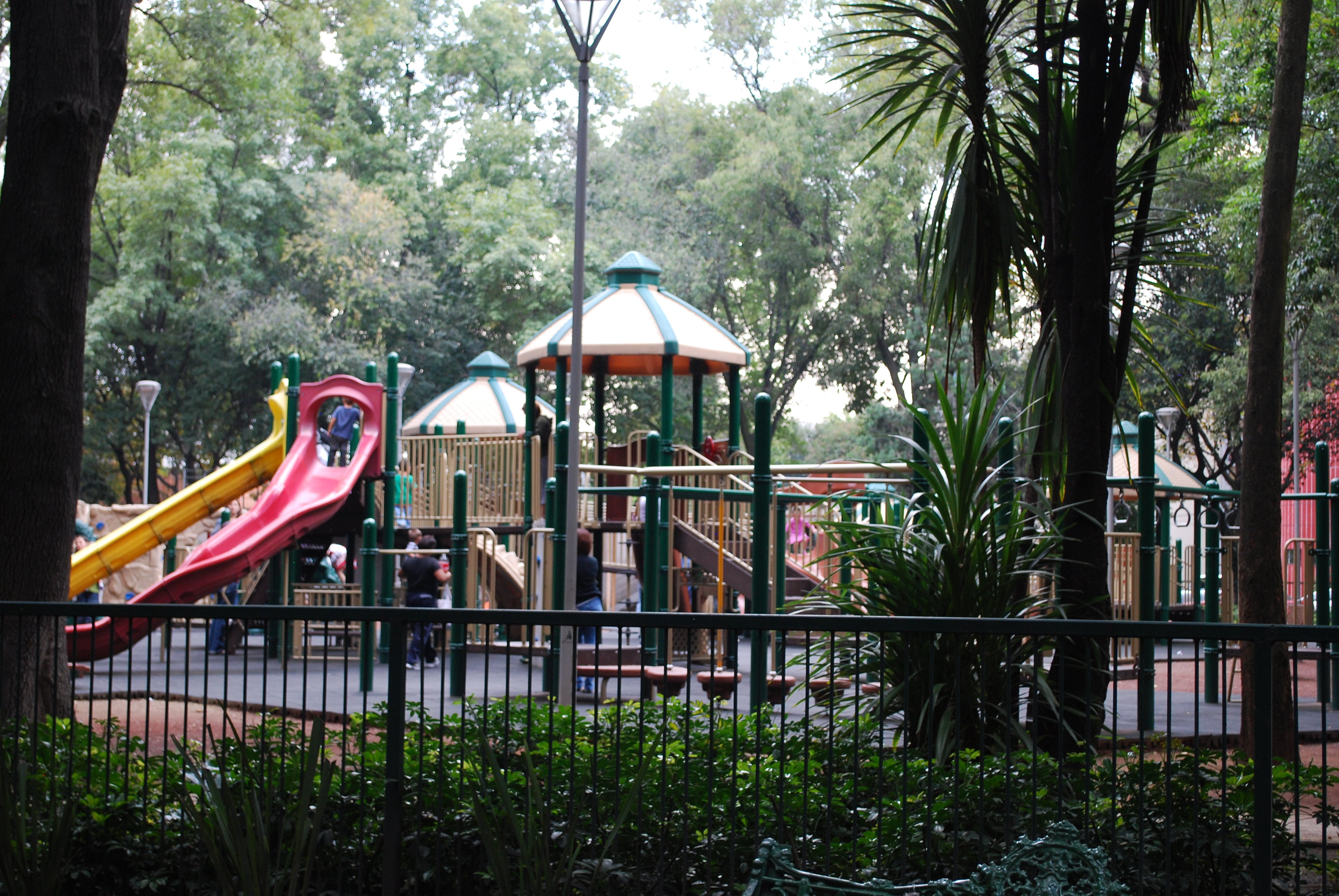 Playground area in Parque España Mexico City